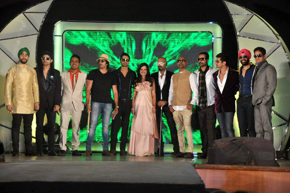 Riyaz Gangji, Mushtaq Sheikh, Karnvir Bohra, Ashmit Patel, Ammy Billimoria, Raghu Ram, Rajiv Laxman, Sudhanshu Pandey, Vikas Kalantri